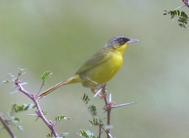 Grey-crowned Yellowthroat (Geothlypis poliocephala), Honduras, cropped version of Image:Grey-crowned Yellowthroat 2496243984.jpg